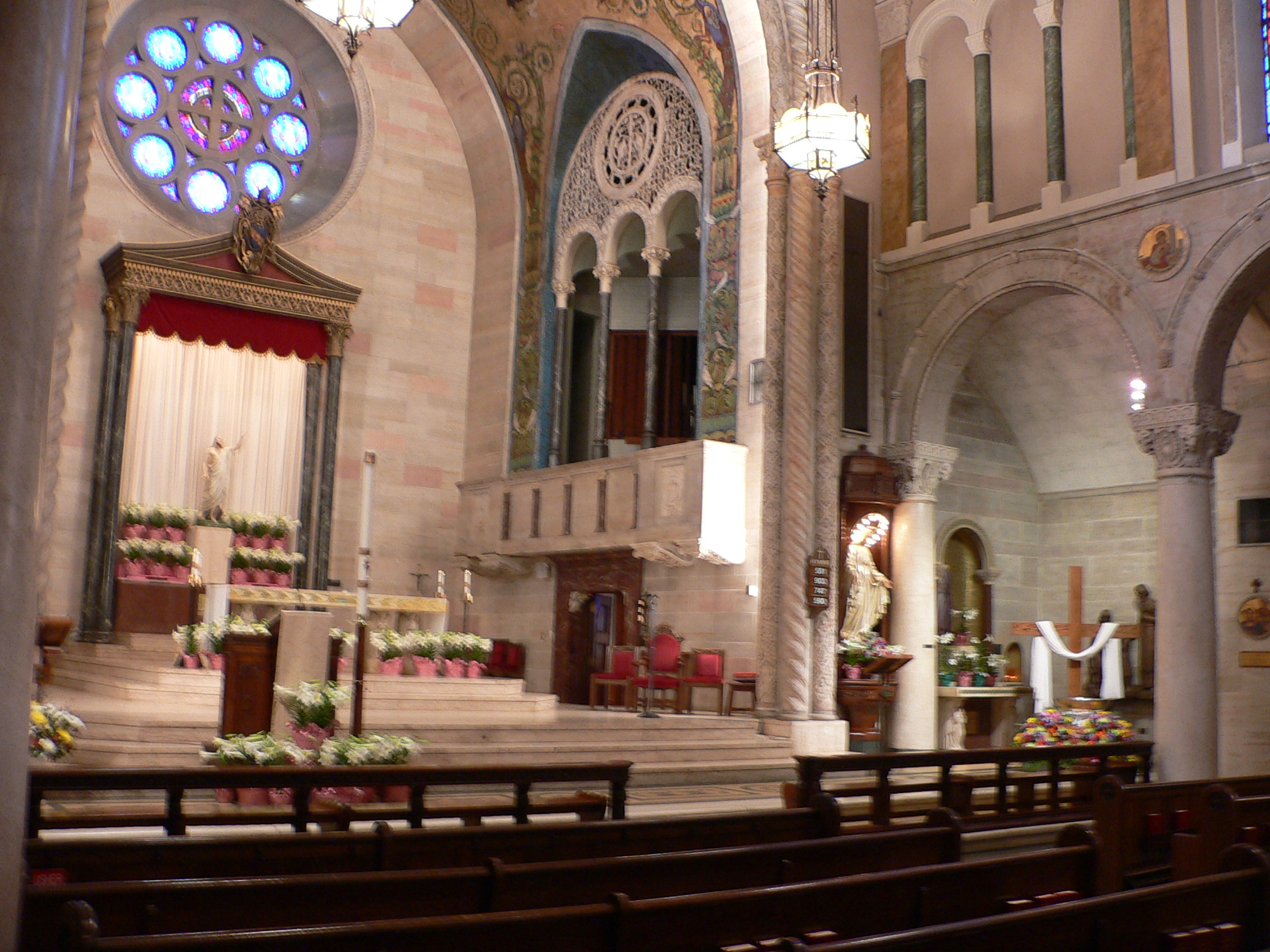 St. Anthony of Padua church